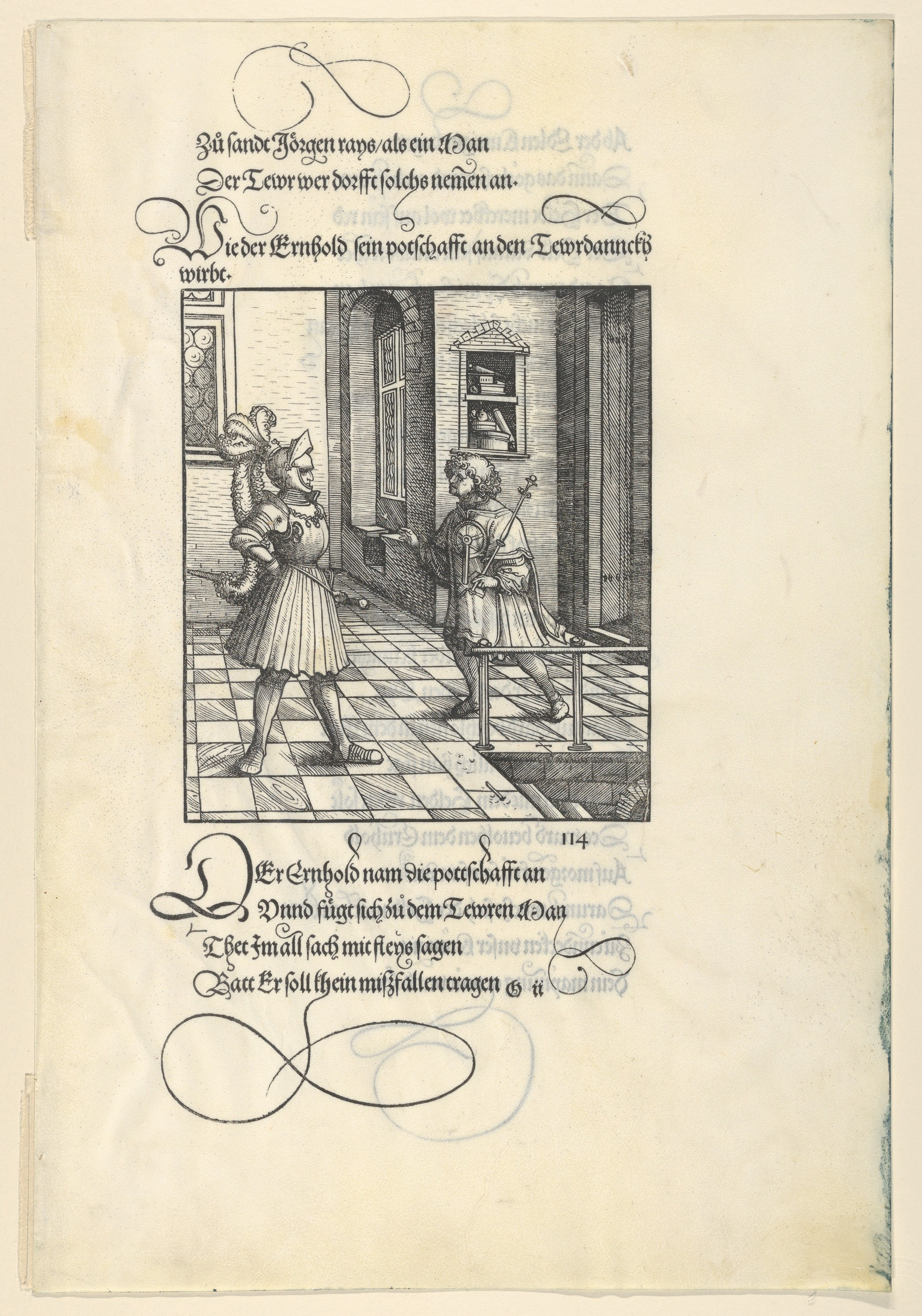 Print; Prints